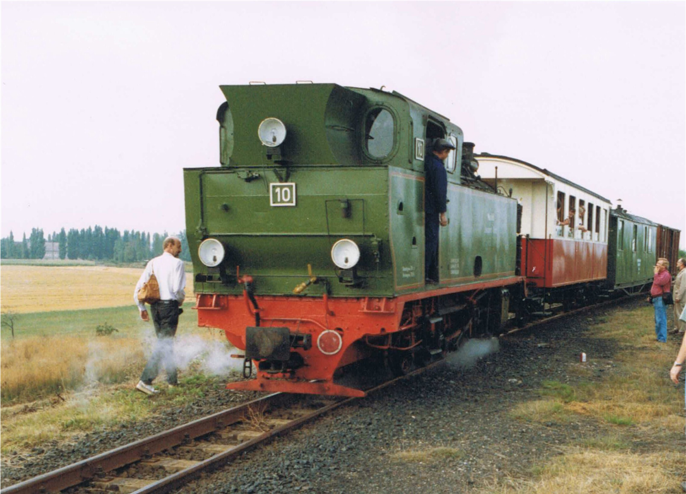 Steam locomotive 10 from the narrow gauge Mansfeld mine railway.